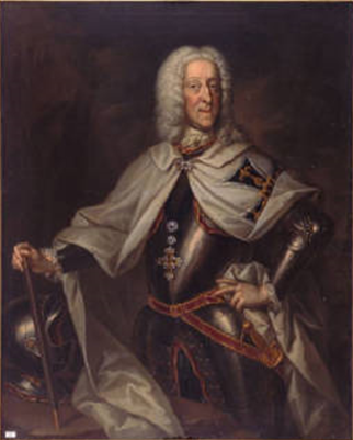 Count Palatine Francis Louis of Neuburg